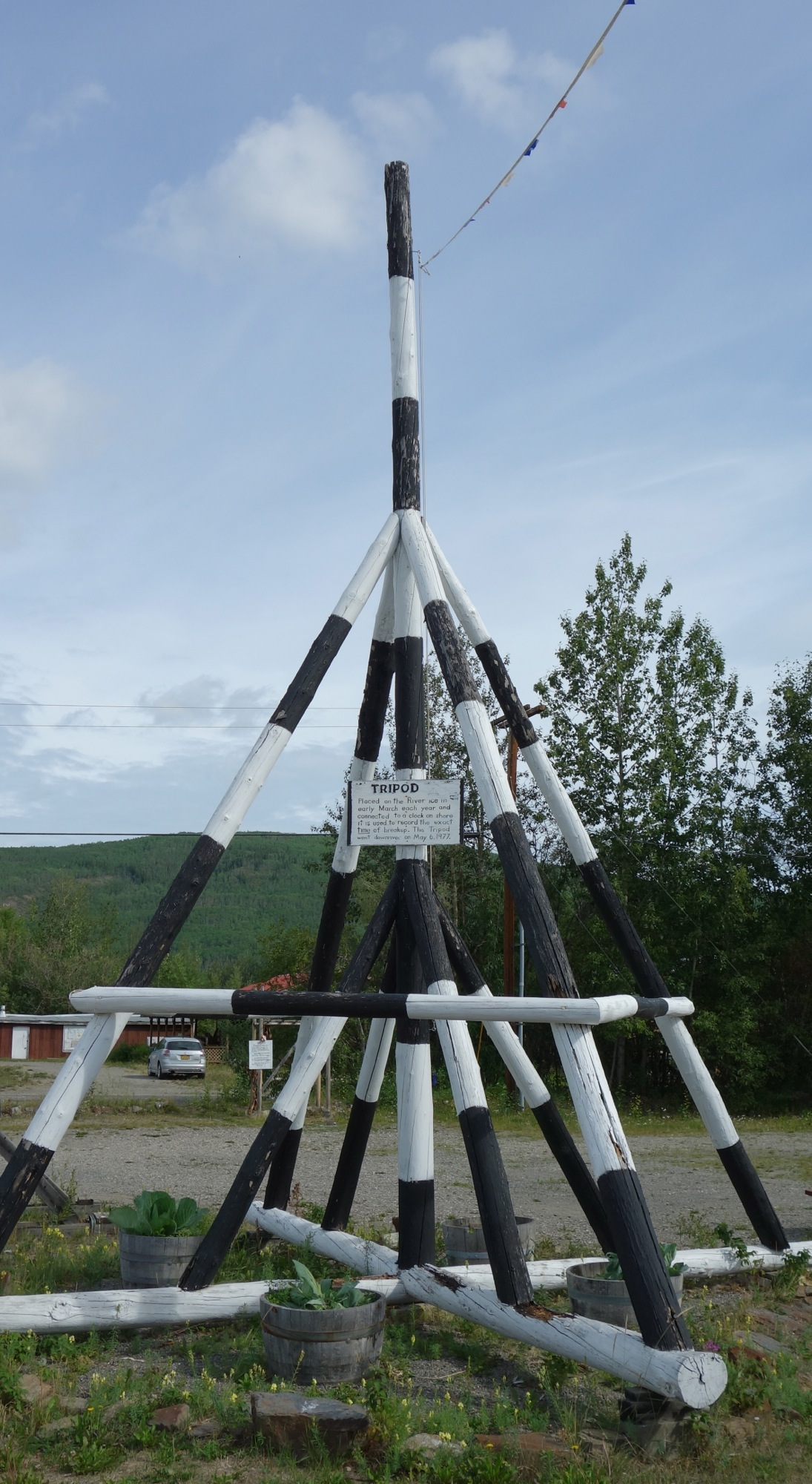 This large striped wooden structure is placed on the frozen Tanana river in Alaska each year. A prize contest is held to predict when the ice will break.